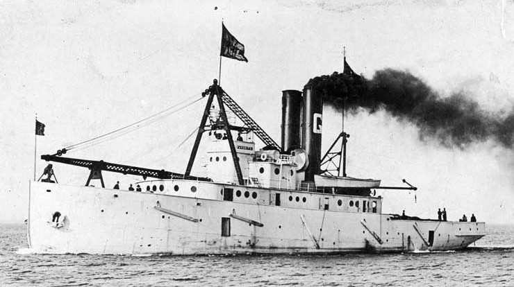 Photo #: NH 100120 S.S. Favorite (American salvage tug, 1907) Possibly photographed soon after completion at Buffalo, New York, in 1907. This ship was in commission as USS Favorite (ID # 1385) from February 1918 to April 1920. Reacquired by the Navy in 1940, she was classified IX-45 in 1941 and stricken in 1948. U.S. Naval Historical Center Photograph.